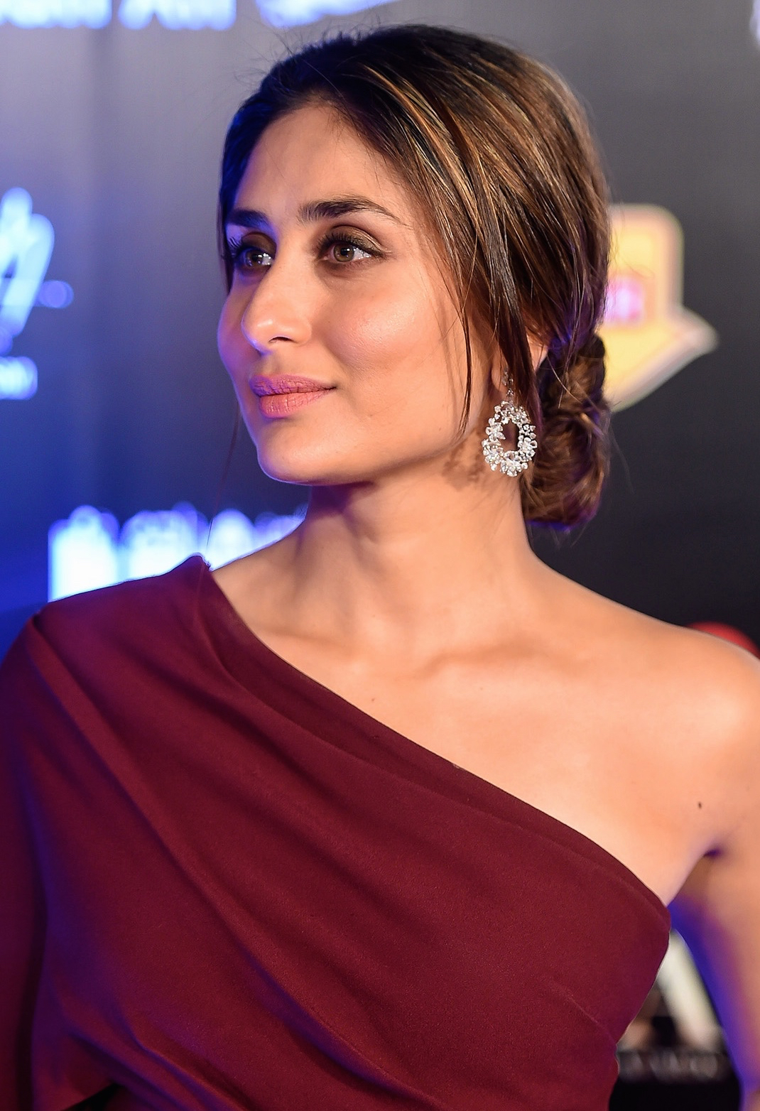 Indian actress Kareena Kapoor at the 2016 Times of India Film Awards in Dubai, United Arab Emirates (UAE)